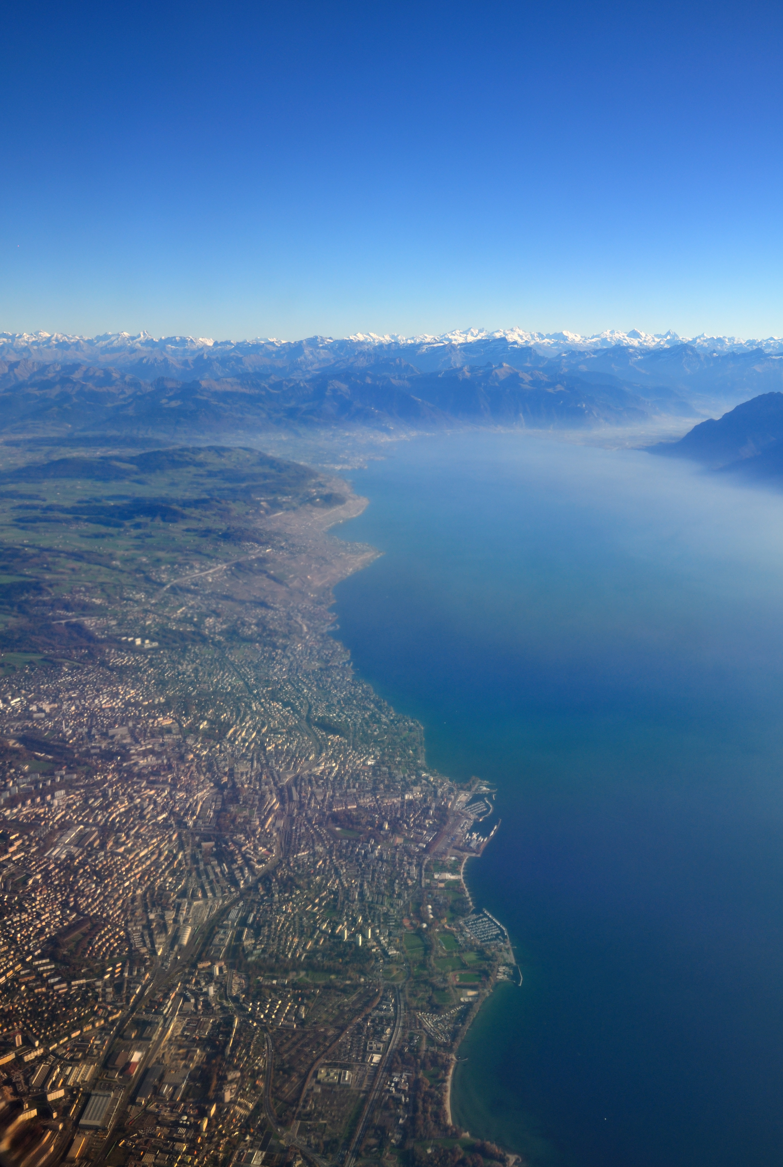 Switzerland, Vaud, aerial view overhead Ecublens on a clear November day on a flight from Prague to Geneva.